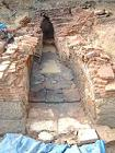 Nick Wells Taken on behalf of the Surrey Archeological Society in 2004